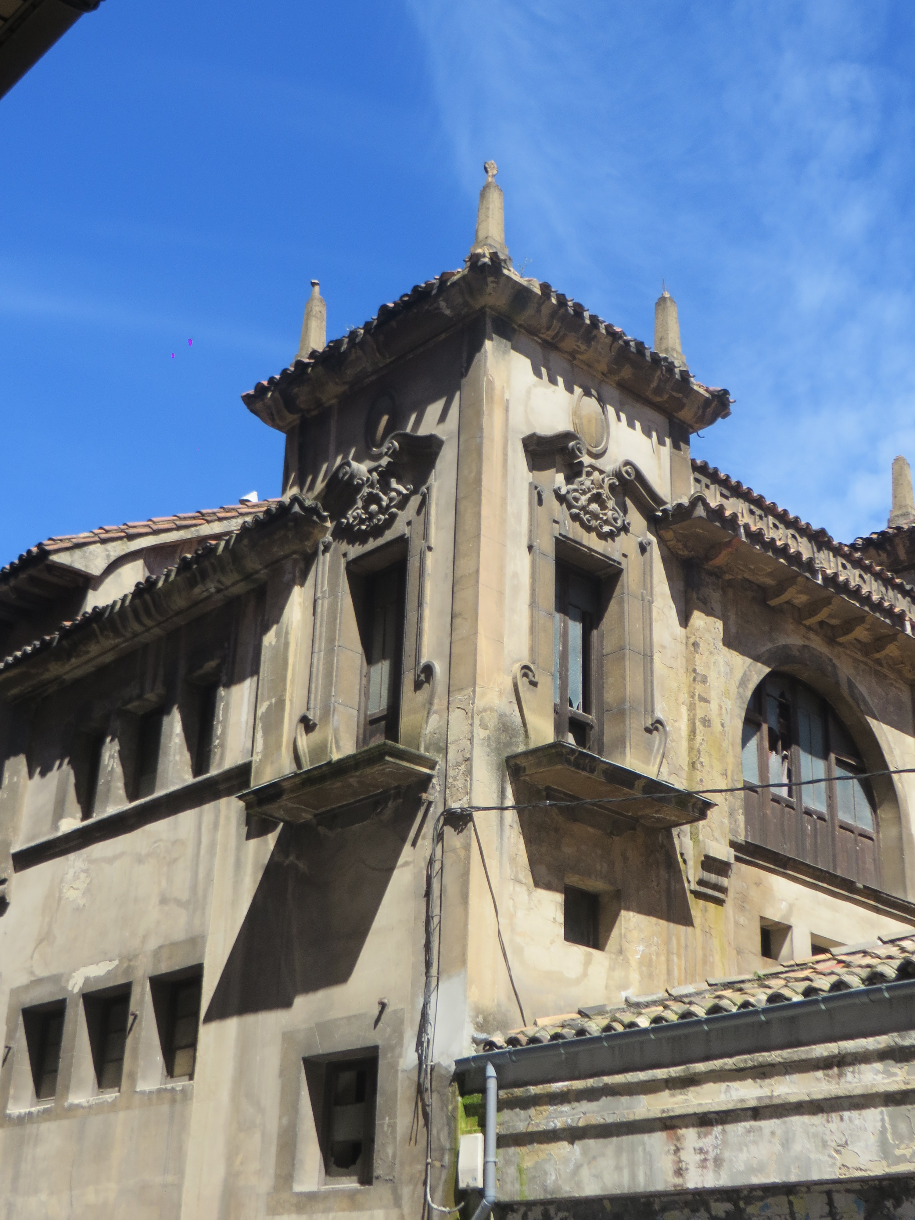 Teatro abandonado en Sotrondio, Asturias.